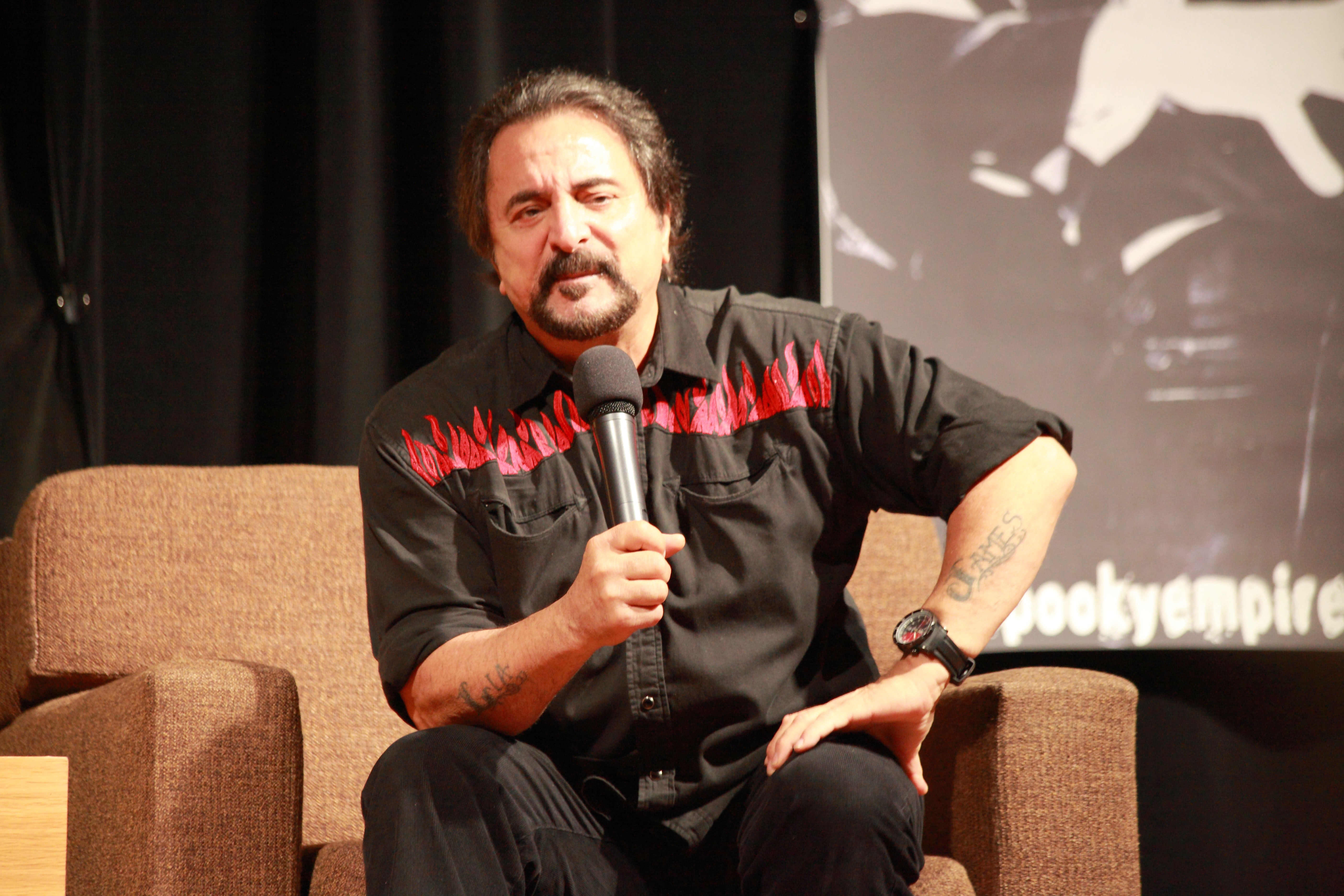 Tom Savini at Spooky Empire's Ultimate Horror Weekend 2014 held in Orlando, Florida.